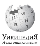 A logo for Wikipedia in the Kyrgyz language.